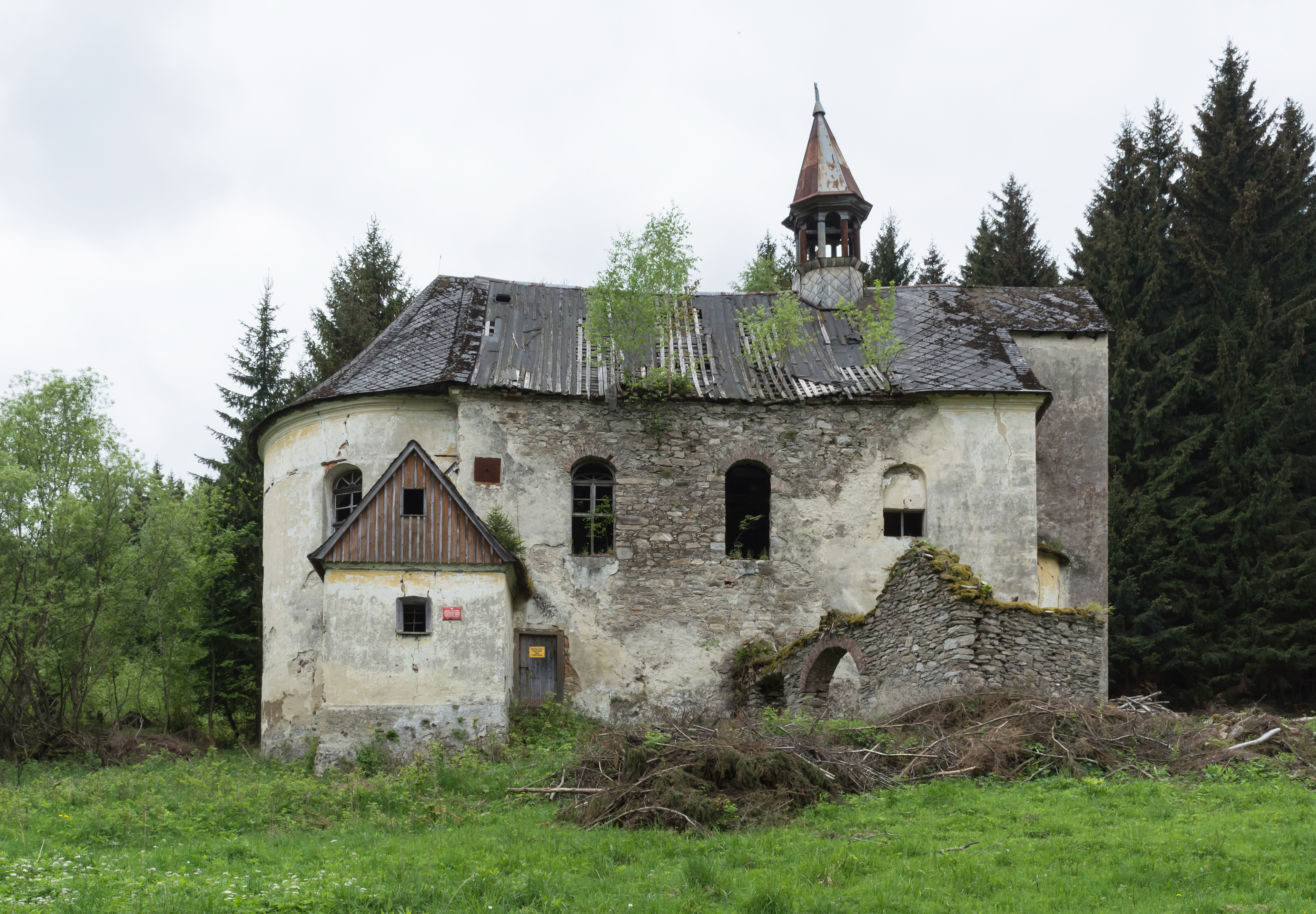 Church in Janowa Góra